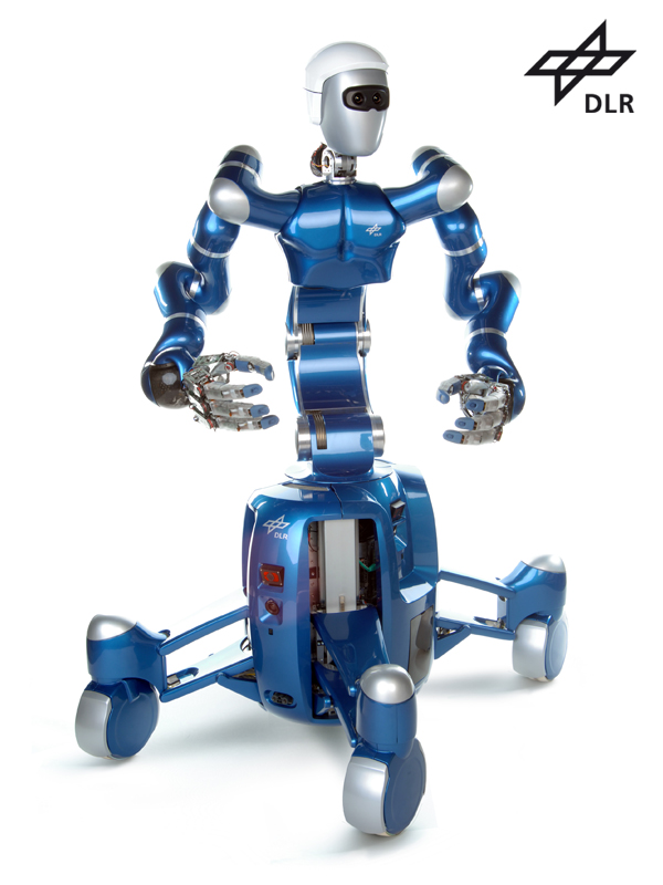 SpaceJustin is a humanoid upper body consisting of two Light-Weight Robot arms, two DLR-HIT Hands II, a torso and a head.